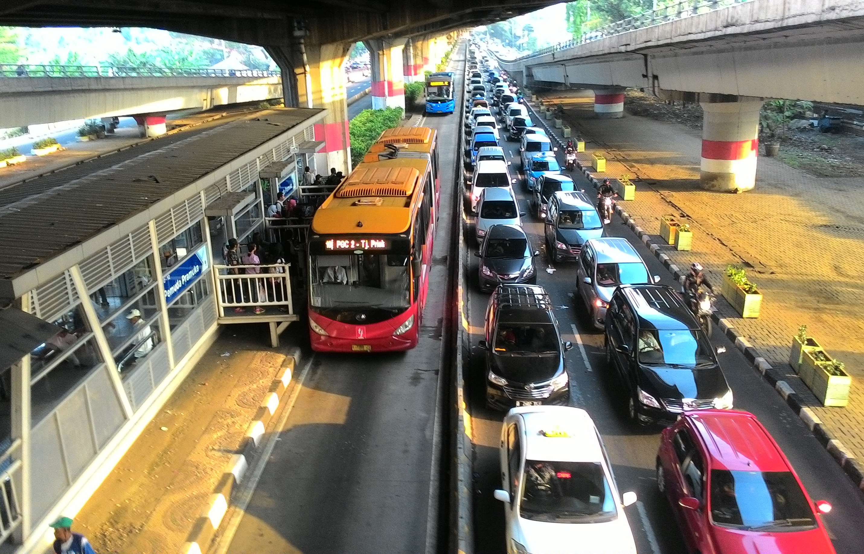 Transjakarta buses run on a dedicated line separated from traffic at Pemuda Pramuka bus stop on Jalan Ahmad Yani, East Jakarta.